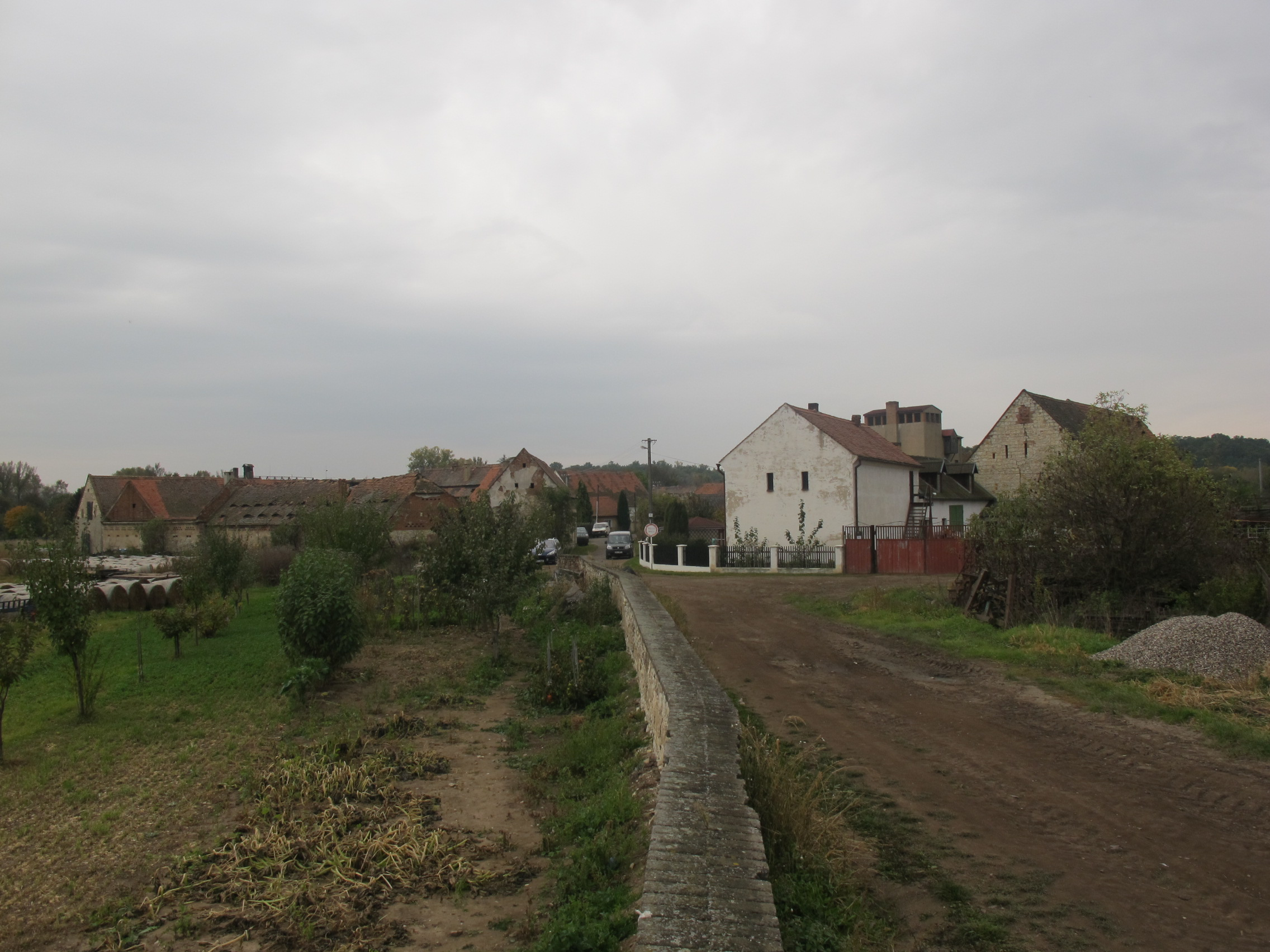 Zálužice - total view